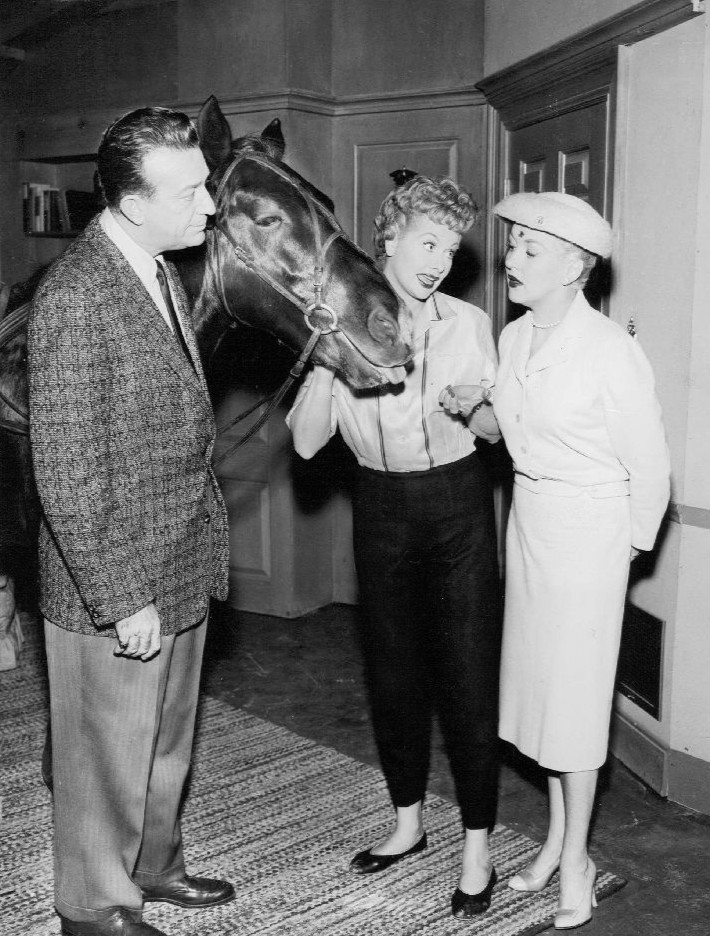 Publicity photo for The Lucille Ball-Desi Arnaz Show. Lucy is shown with Tony (horse) and Harry James & Betty Grable. Lucy won Tony the horse in a contest. "Lucy Wins a Race Horse"